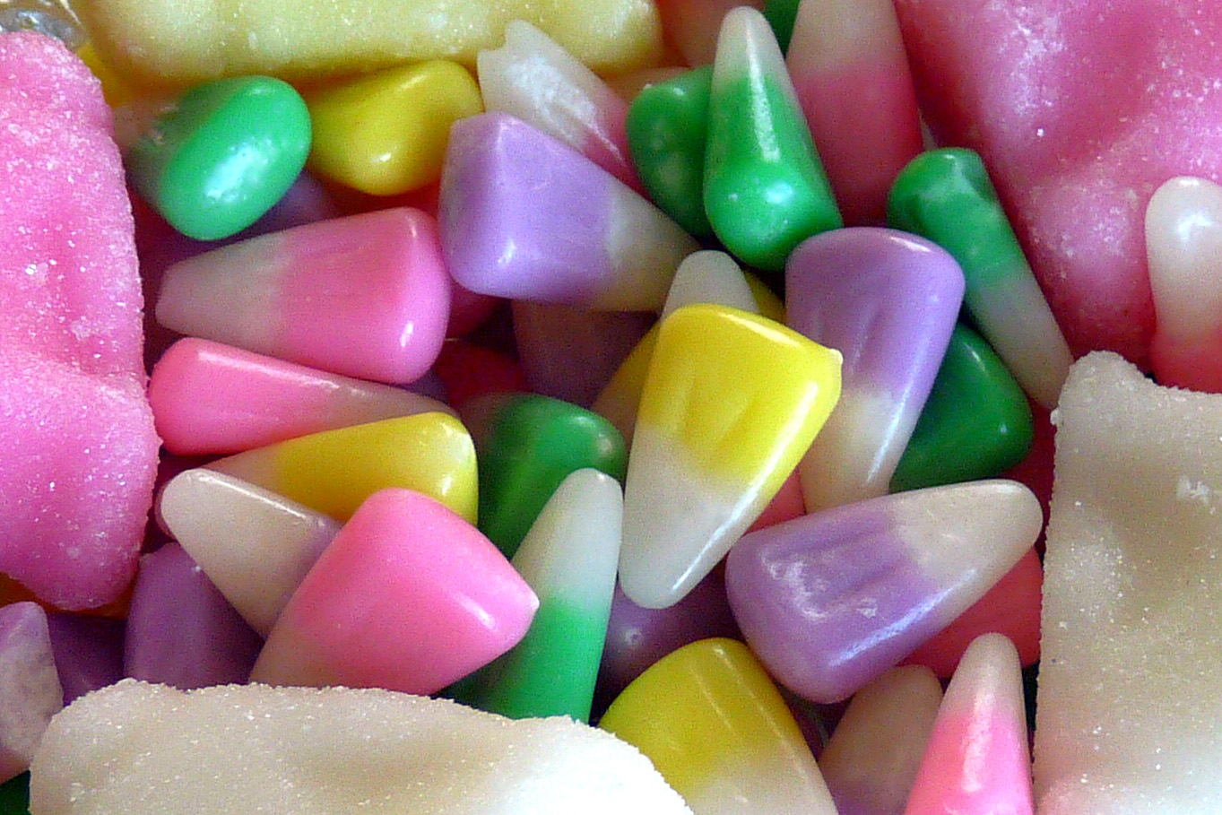 Candy Corn at Easter takes on a more pastel color - but the flavor is the same